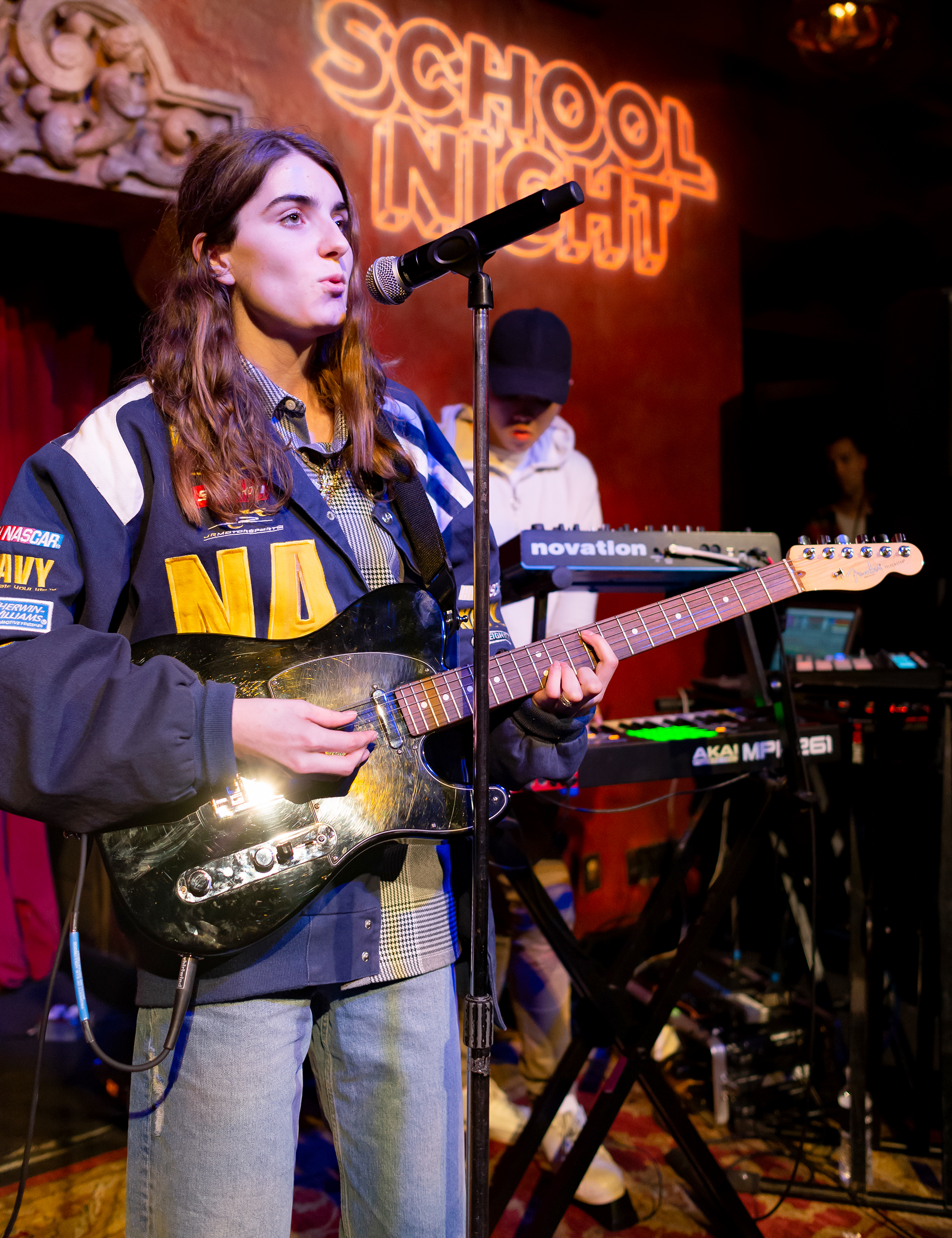 Bülow performing live at School Night at Bardot Hollywood in Los Angeles, California, on Monday, April 4, 2018.